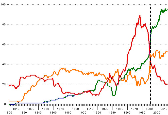 Distribution of score of the countries on the Polity Index 1800-2014.